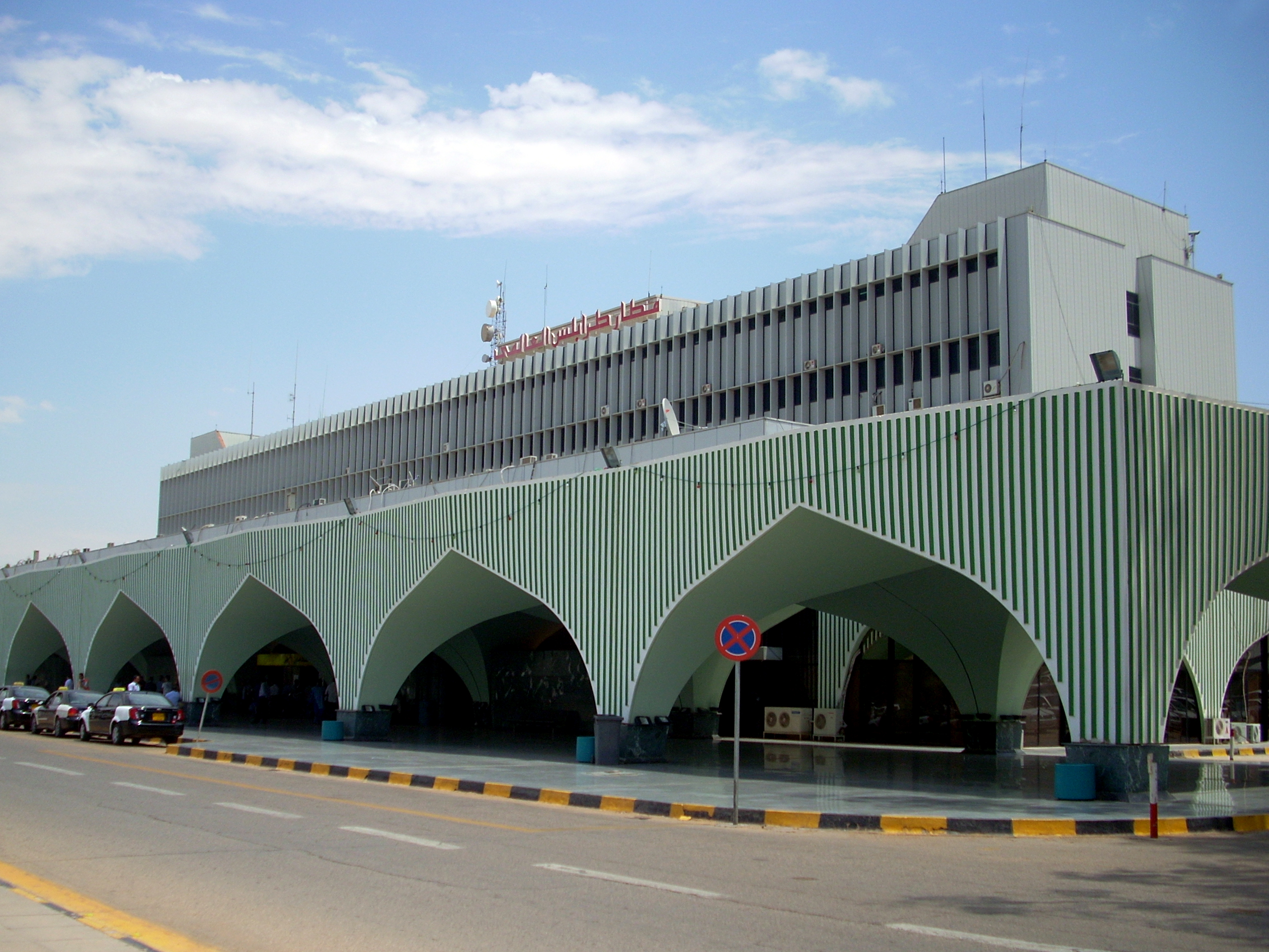 The main terminal at Tripoli International Airport, Libya.